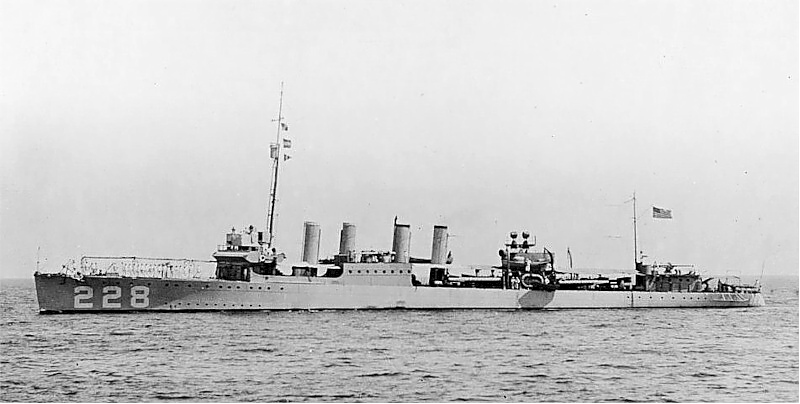 The U.S. Navy destroyer USS John D. Ford (DD-228) in 1930.